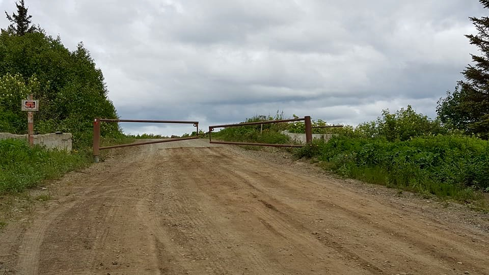 Gate at Ohlson Mountain, a former cold war radar site and landmark outside of Homer, Alaska, now closed to the public entirely